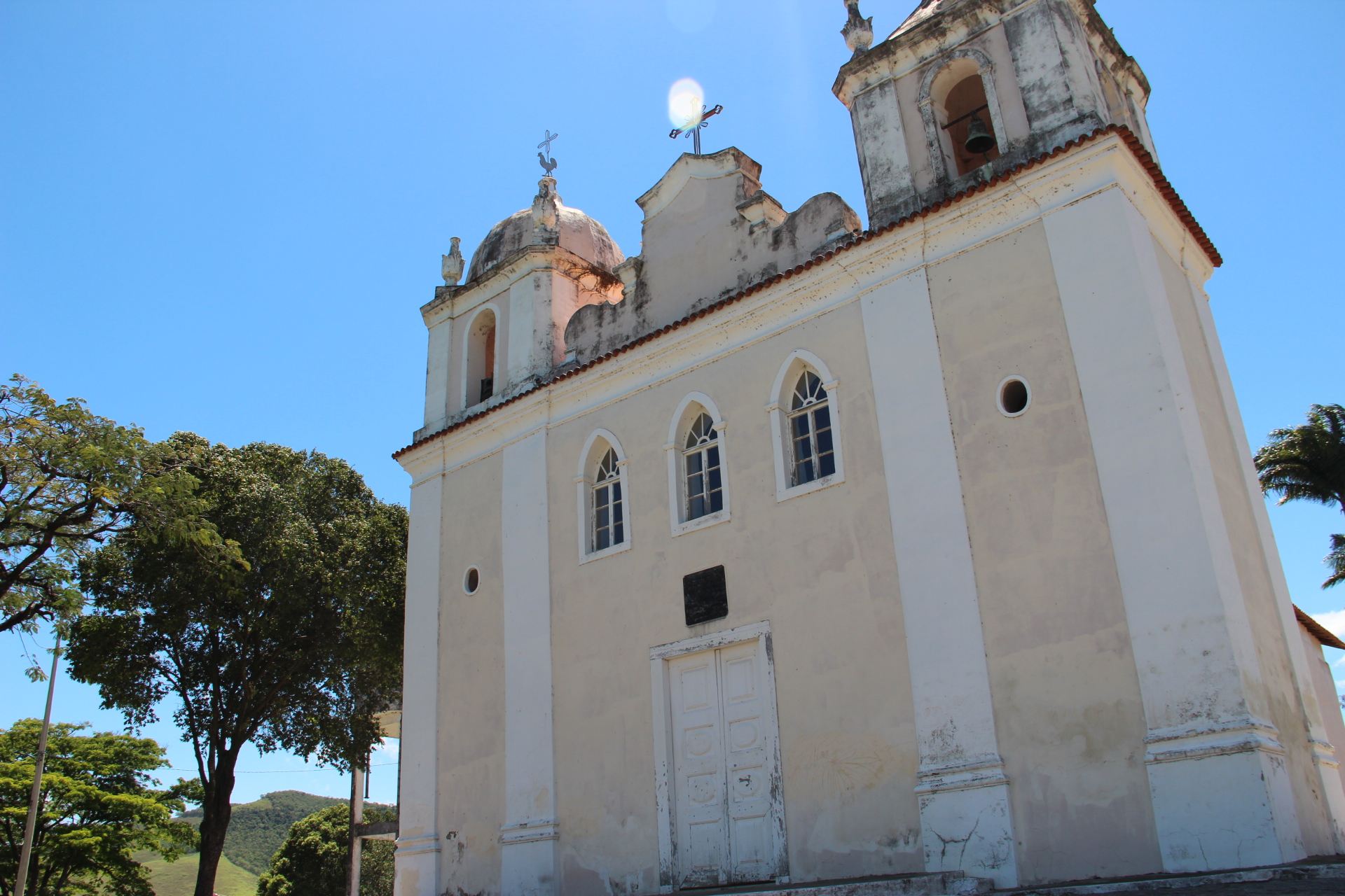 Localizada no centro da cidade de Viana